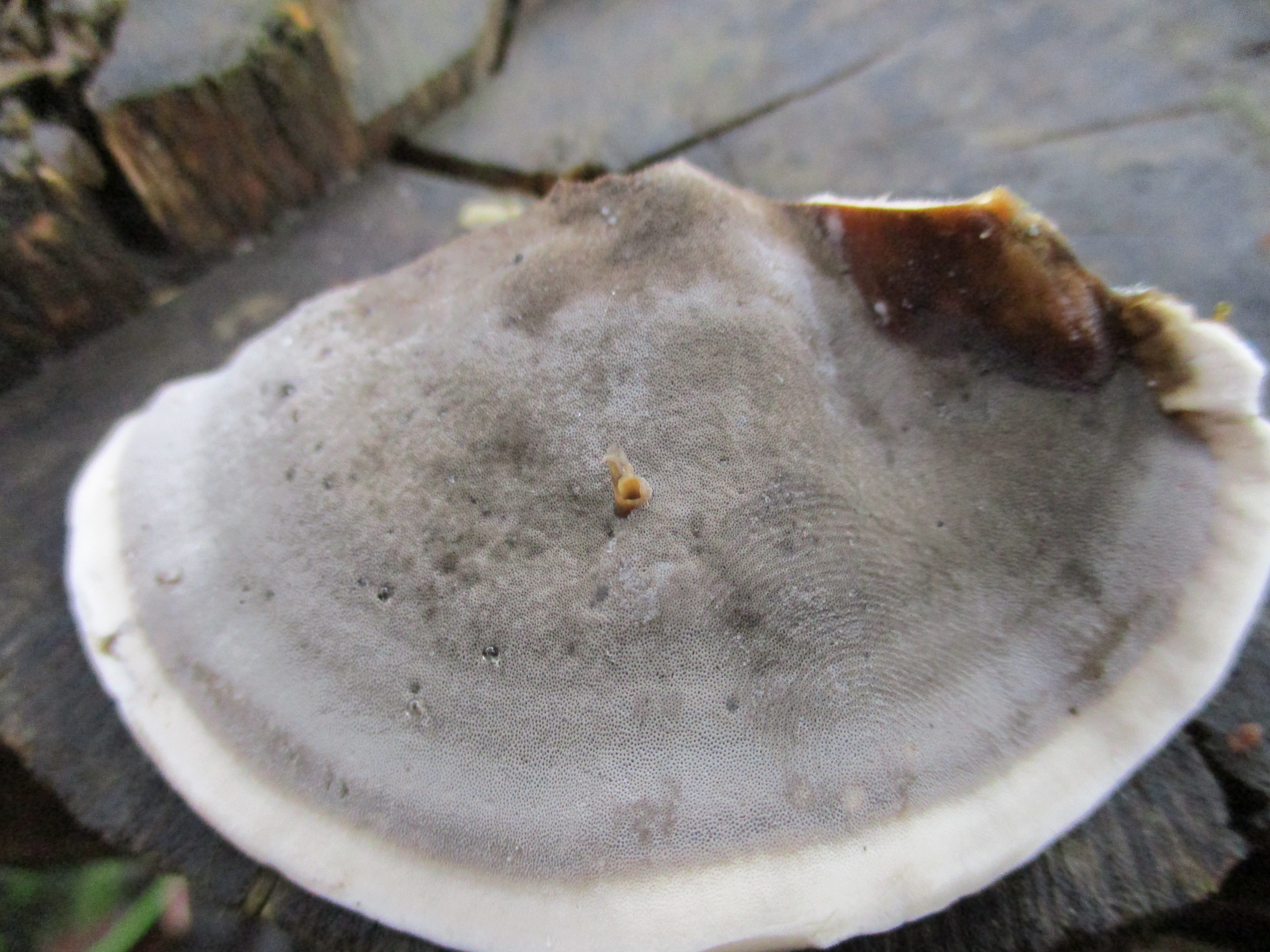 Bjerkandera adusta , view from the bottom side, pores are visible